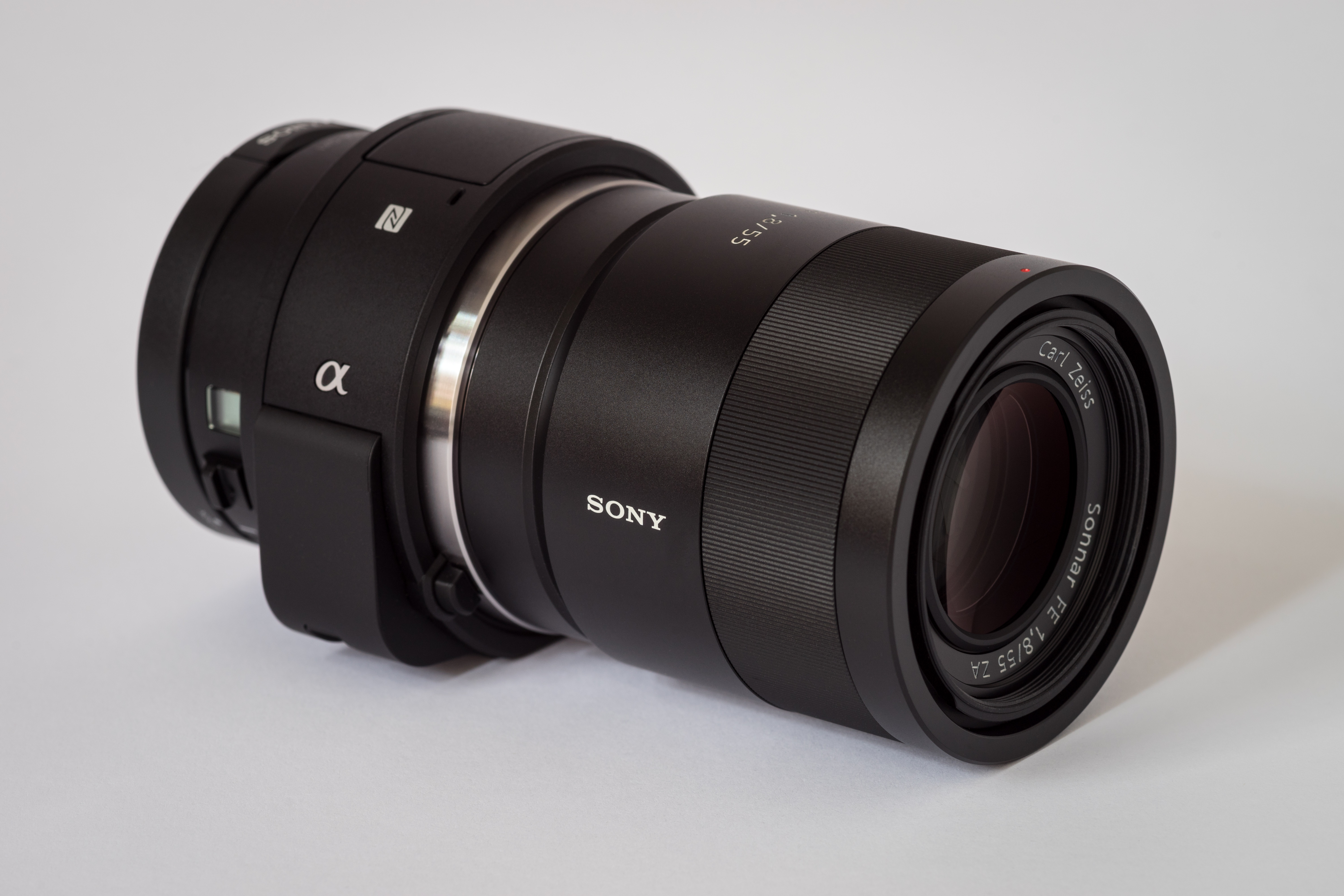 Sony Alpha ILCE-QX1 APS-C-frame camera (mirrorless interchangeable-lens camera) with Zeiss lens Sonnar T* FE 1,8/55 ZA attached.